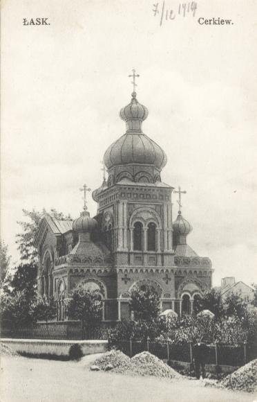 Orthodox church in Łask. A postcard from Aleksander Sosna's collection.